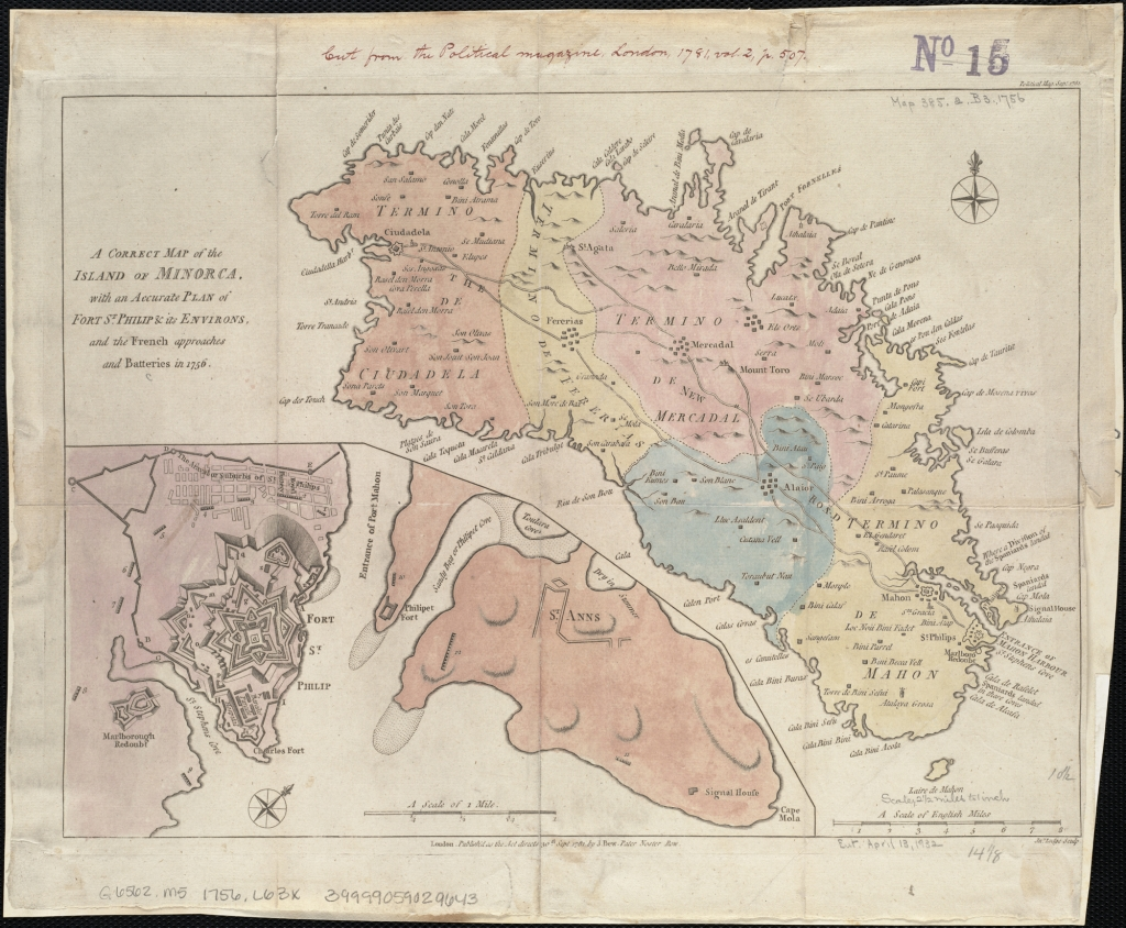 Zoom into this map at . Author: Lodge, John Publisher: Bew, John Date: 1781 Location: Minorca (Spain) Dimension: 28x38cm Scale: ca. 1:158,400 Call Number: G6562.M5 1756 .L63x